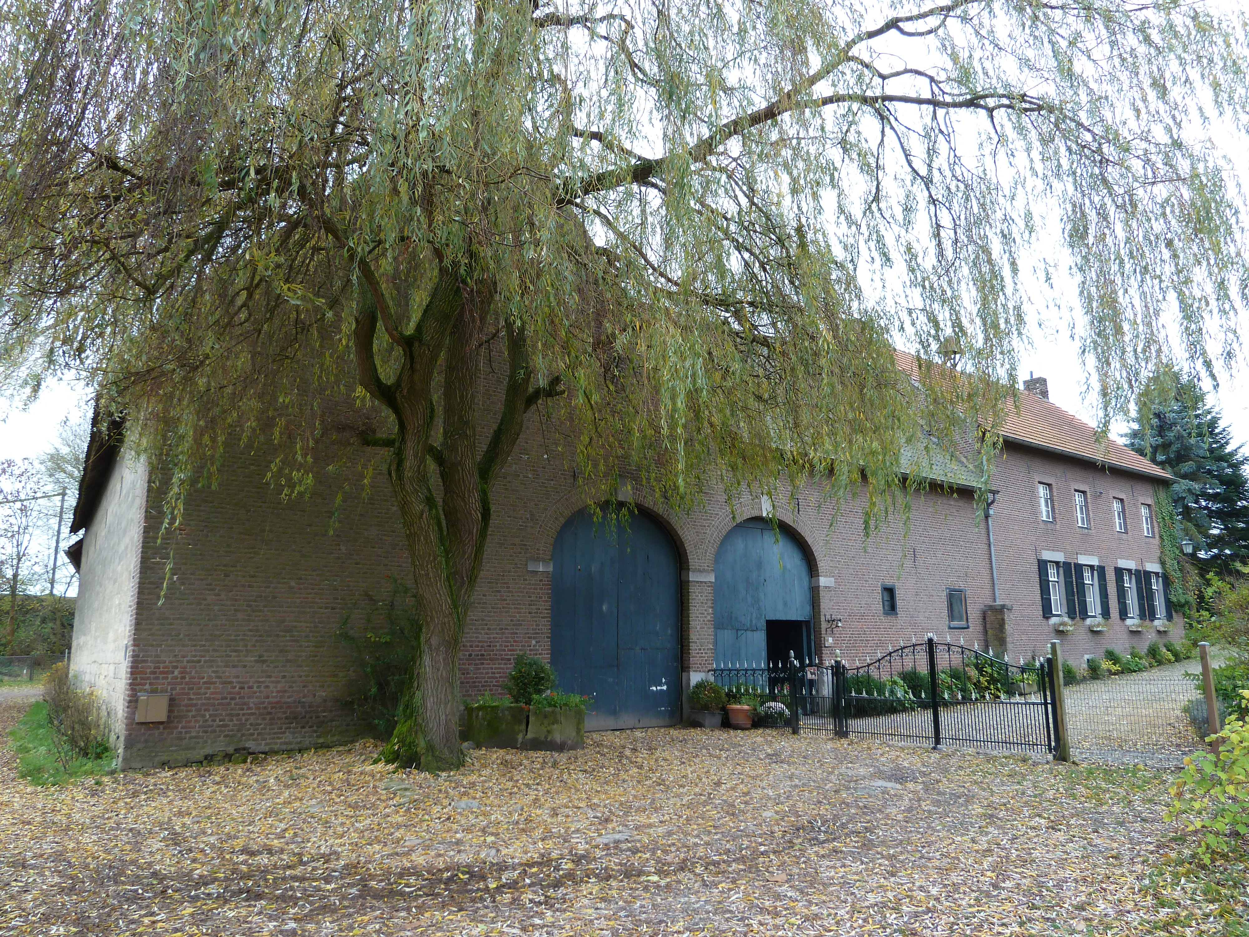 Kaardenbekerweg 30, Klimmen, Limburg, the Netherlands